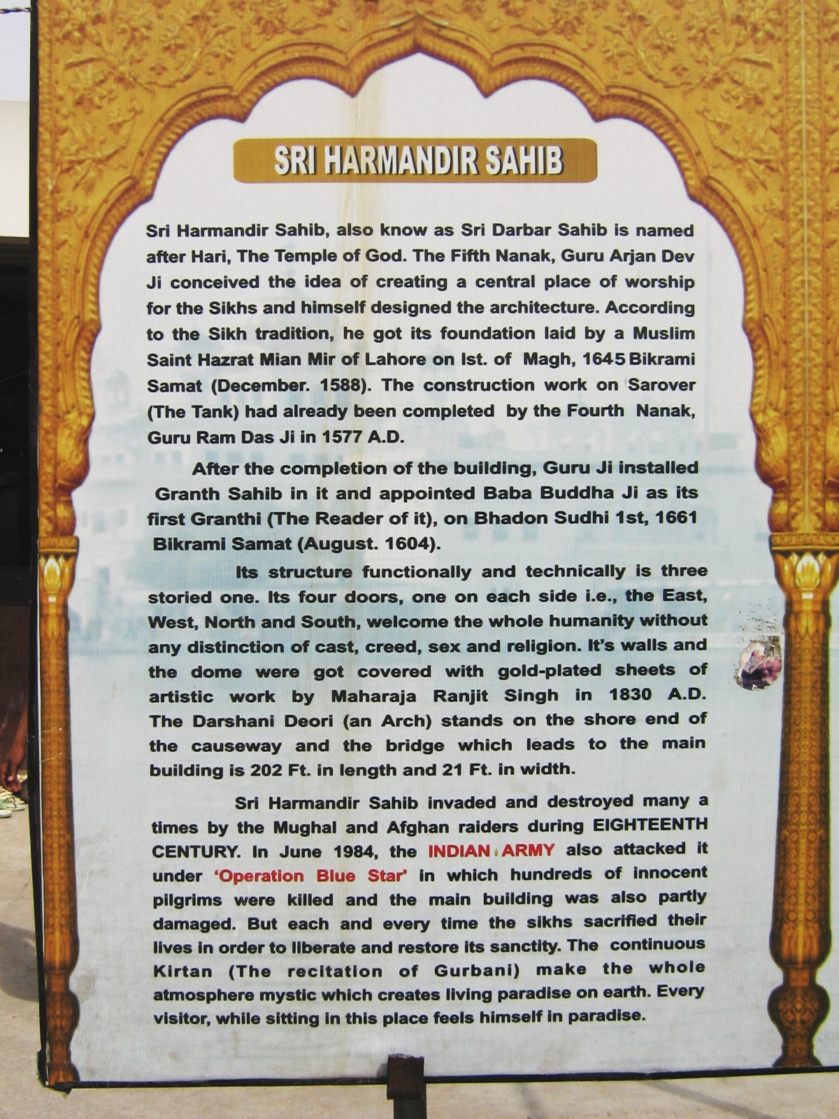 Brief information about history and structure of the Harmandir Sahib (also known as Golden Temple) displayed on a board near the main entrance of the temple complex.